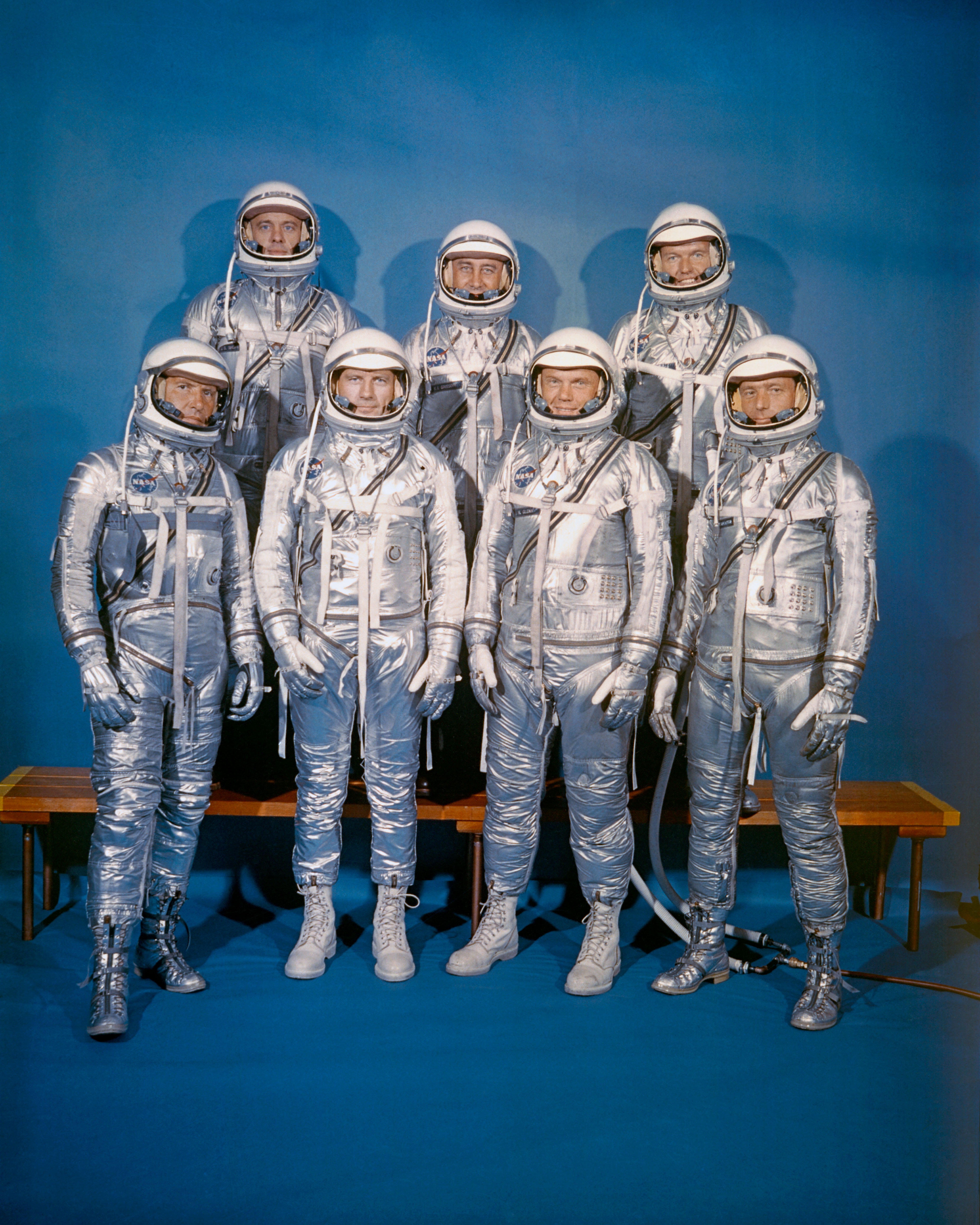 On April 9, 1959, NASA introduced its first astronaut class, the Mercury 7. Front row, left to right: Walter M. Schirra, Jr., Donald K. "Deke" Slayton, John H. Glenn, Jr., and M. Scott Carpenter; back row, Alan B. Shepard, Jr., Virgil I. "Gus" Grissom, and L. Gordon Cooper, Jr.